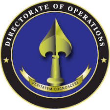 Seal for the CIA Directorate of Operations